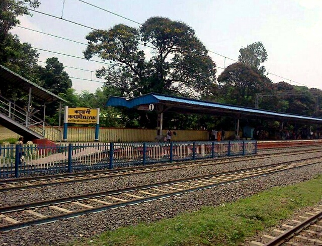 Kalyani city